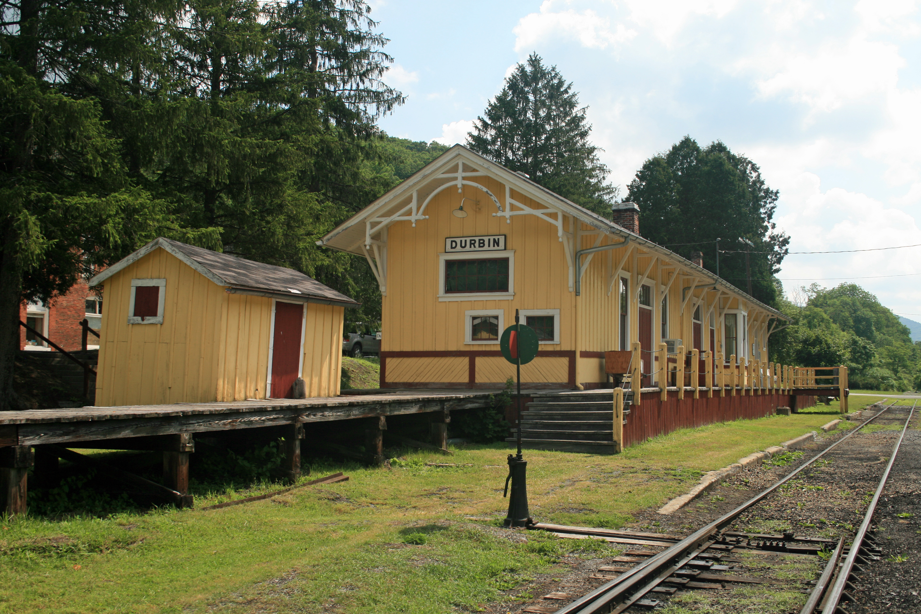 The quaint station in Durbin, WV is used for the D&GV RR scenic trips